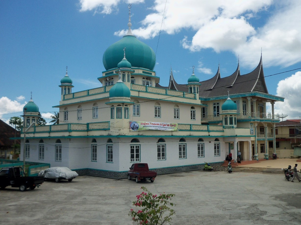 Masjid Birugo